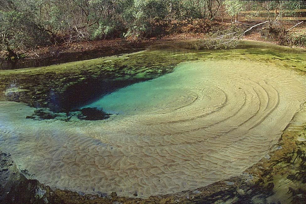 Photograph of Williford Spring in Florida